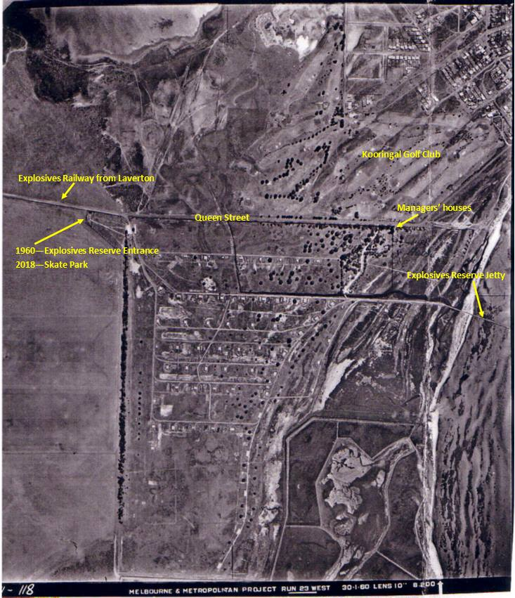 This 1960 aerial view shows the original 225 hectares (555 acres) of the Truganina Explosives Reserve, when it extended to what is now the Skate Park at Altona Meadows to beyond the 100 Steps of Federation at Truganina Park. Laverton Creek was once a small waterway running alongside the railway line that leads to the jetty. The jetty exists no longer and the creek is now much wider. The line of eucalyptus trees, still standing in what is now Altona Meadows, can be seen in the photo.